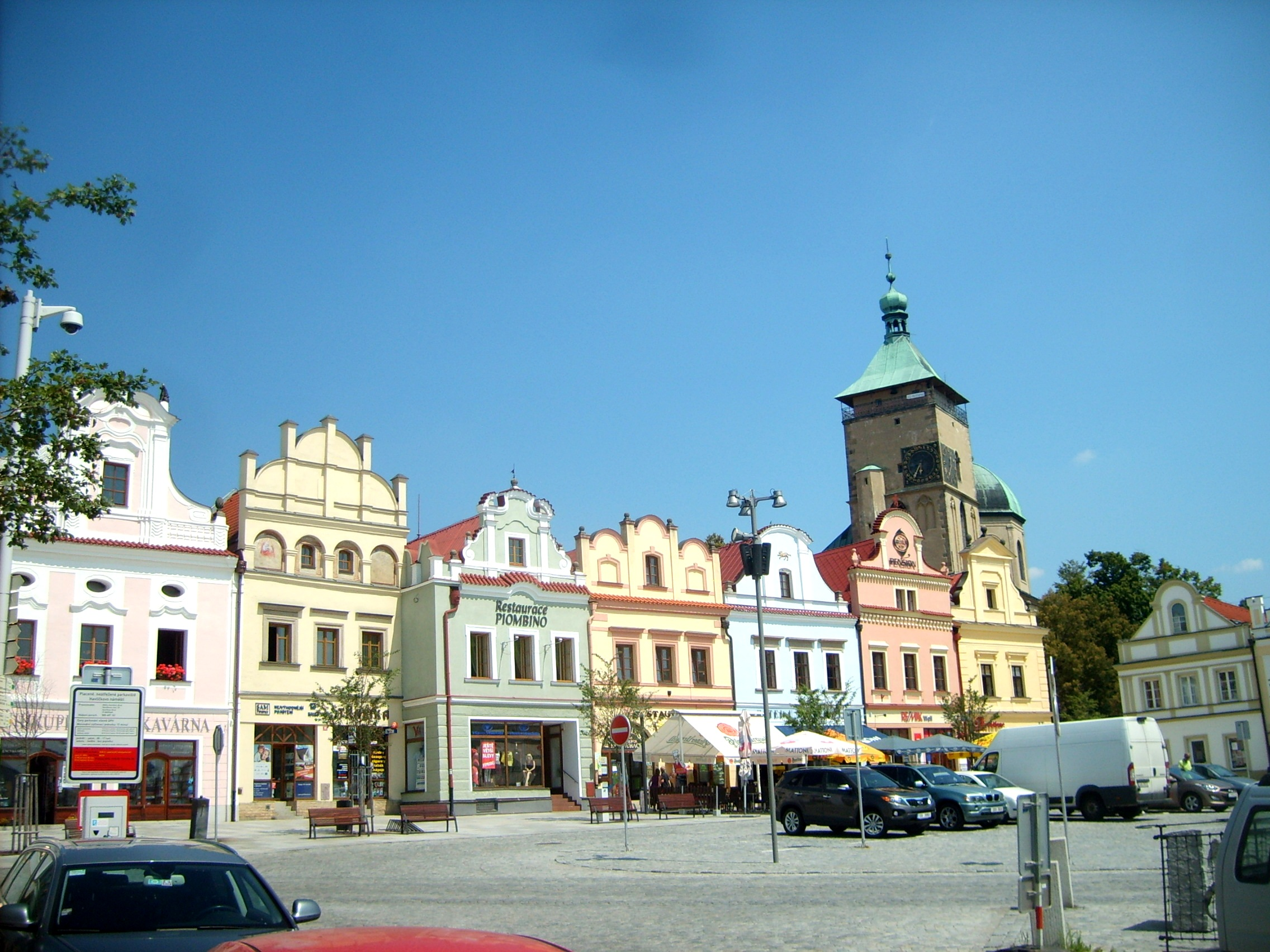 The northern site of Havlíček square in Havlíčkův Brod, CZ